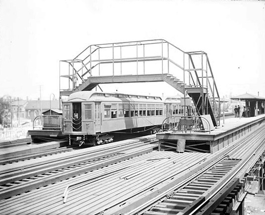 Belmont Avenue Elevated Train Station with a train car underneath the passenger transfer bridge, Chicago, Illinois.